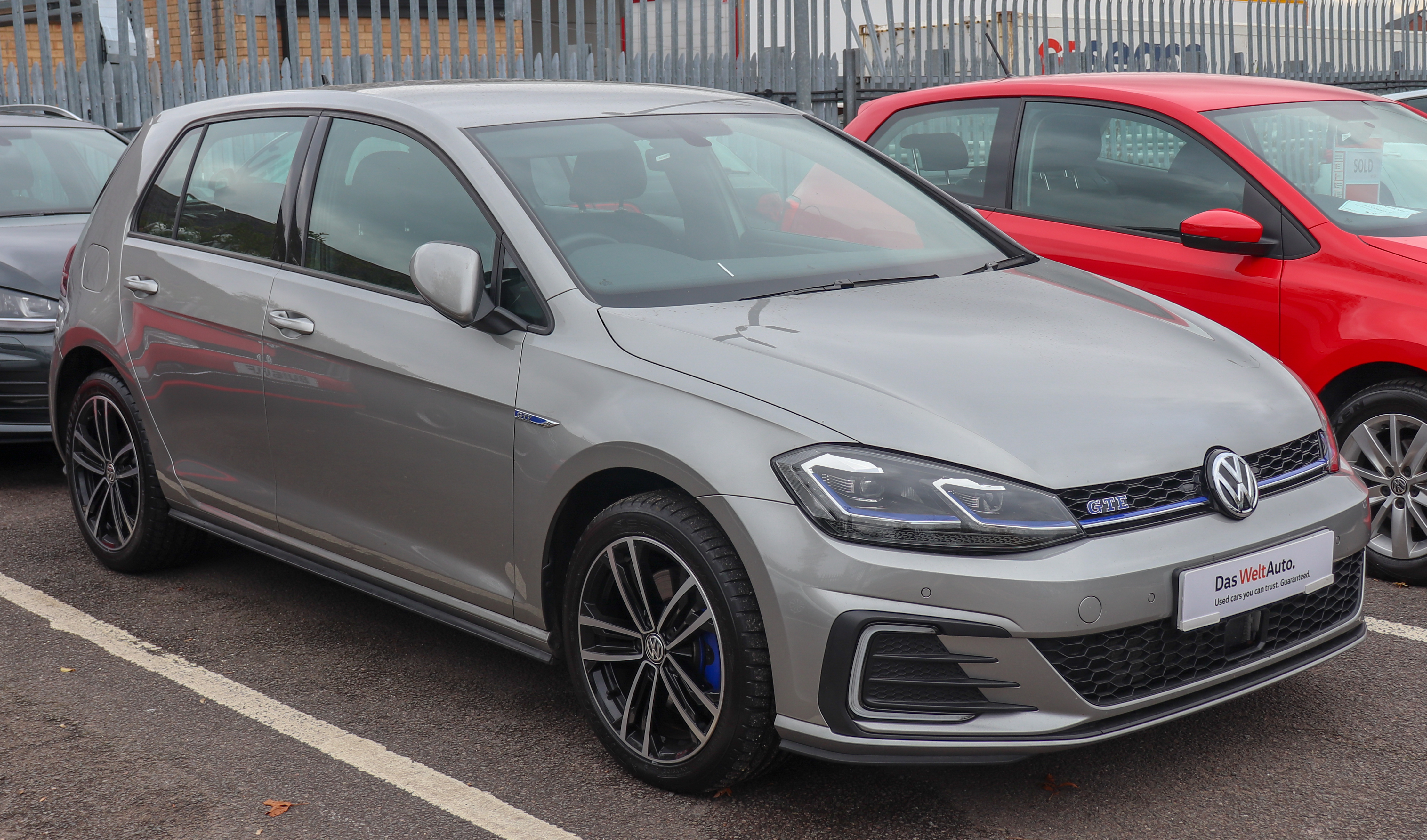 2017 Volkswagen Golf GTE S-A 1.4 Taken in Leamington Spa